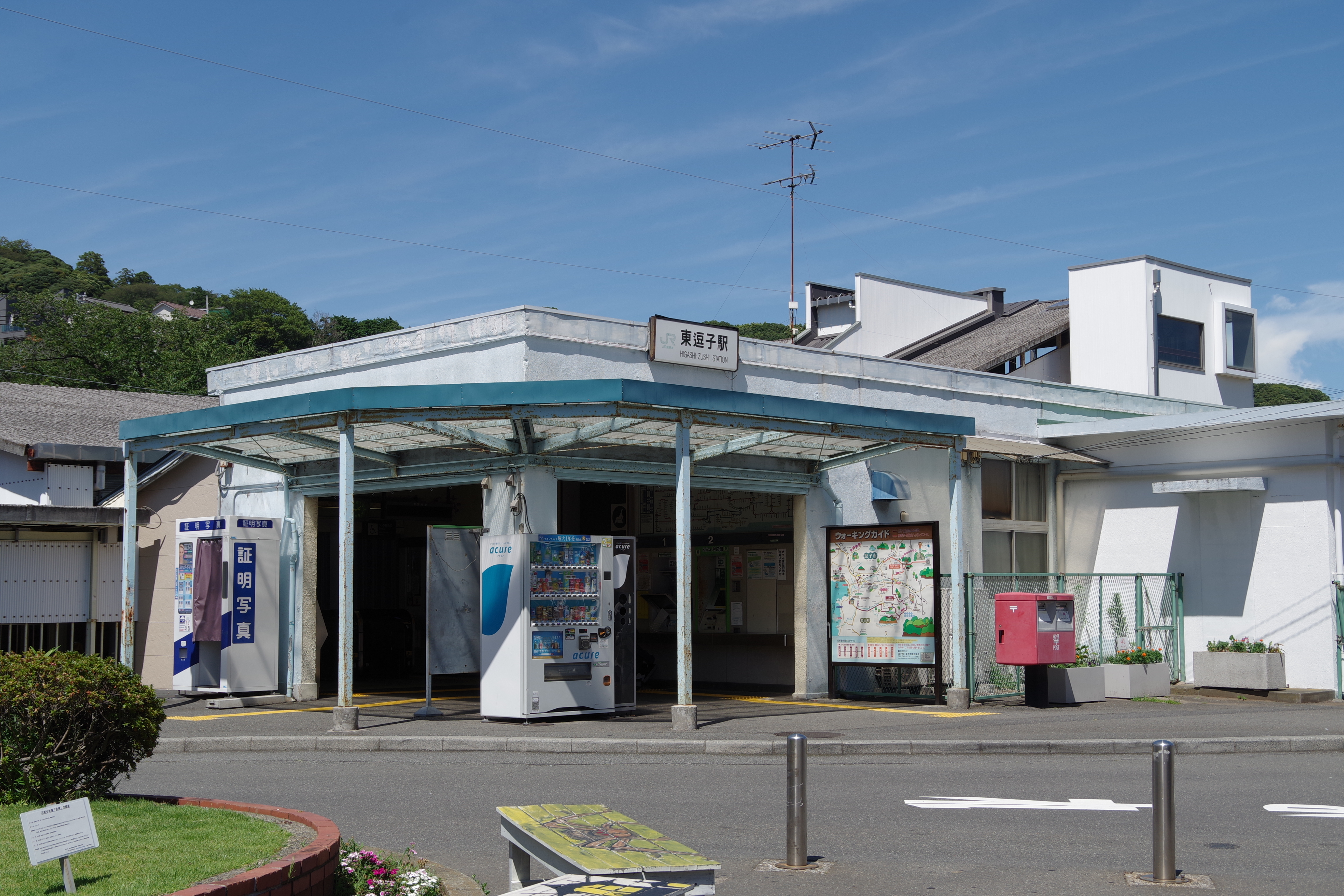 JR Higashi-Zushi Station. Shot from Rotary in front of the station.